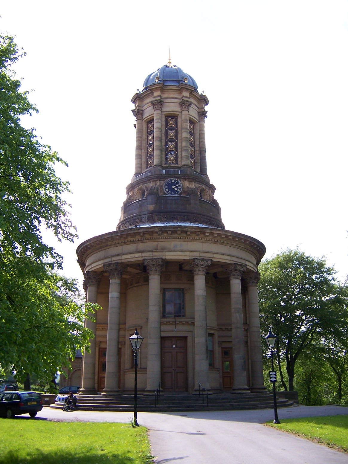 United Reformed Church in Saltaire, West Yorkshire (England) own work; photo taken on 23 May 2006